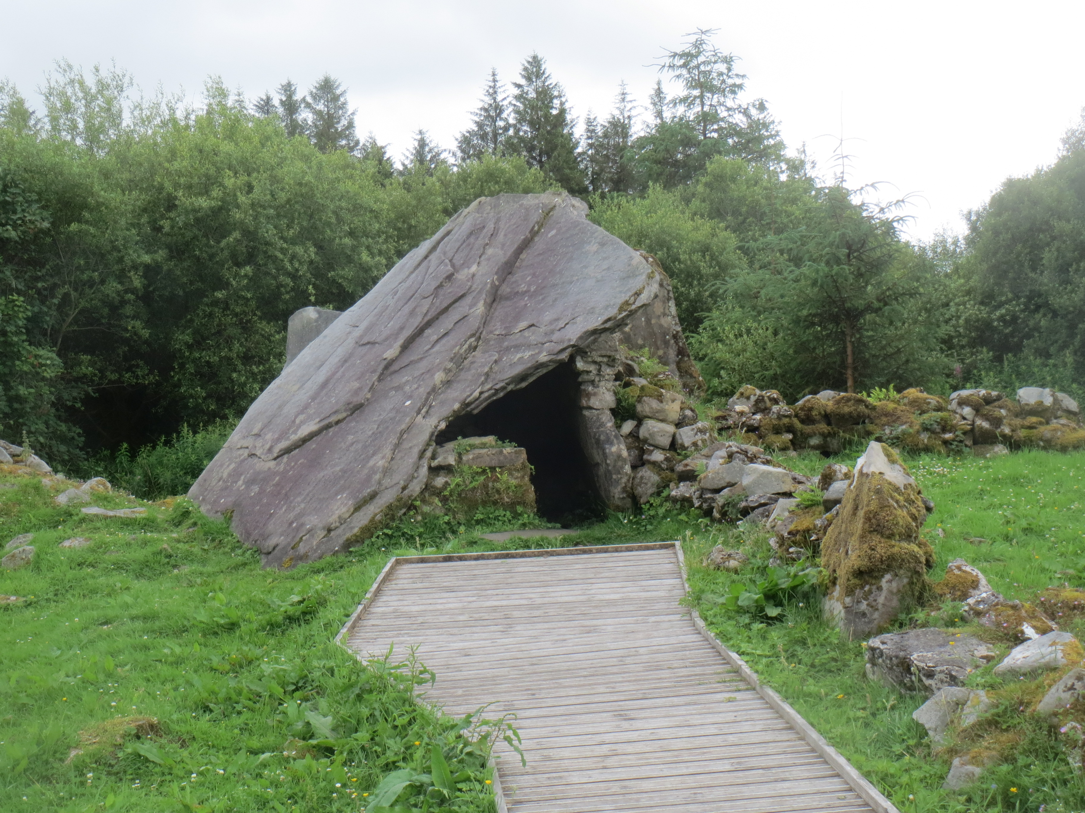 Calf House Portal Tomb